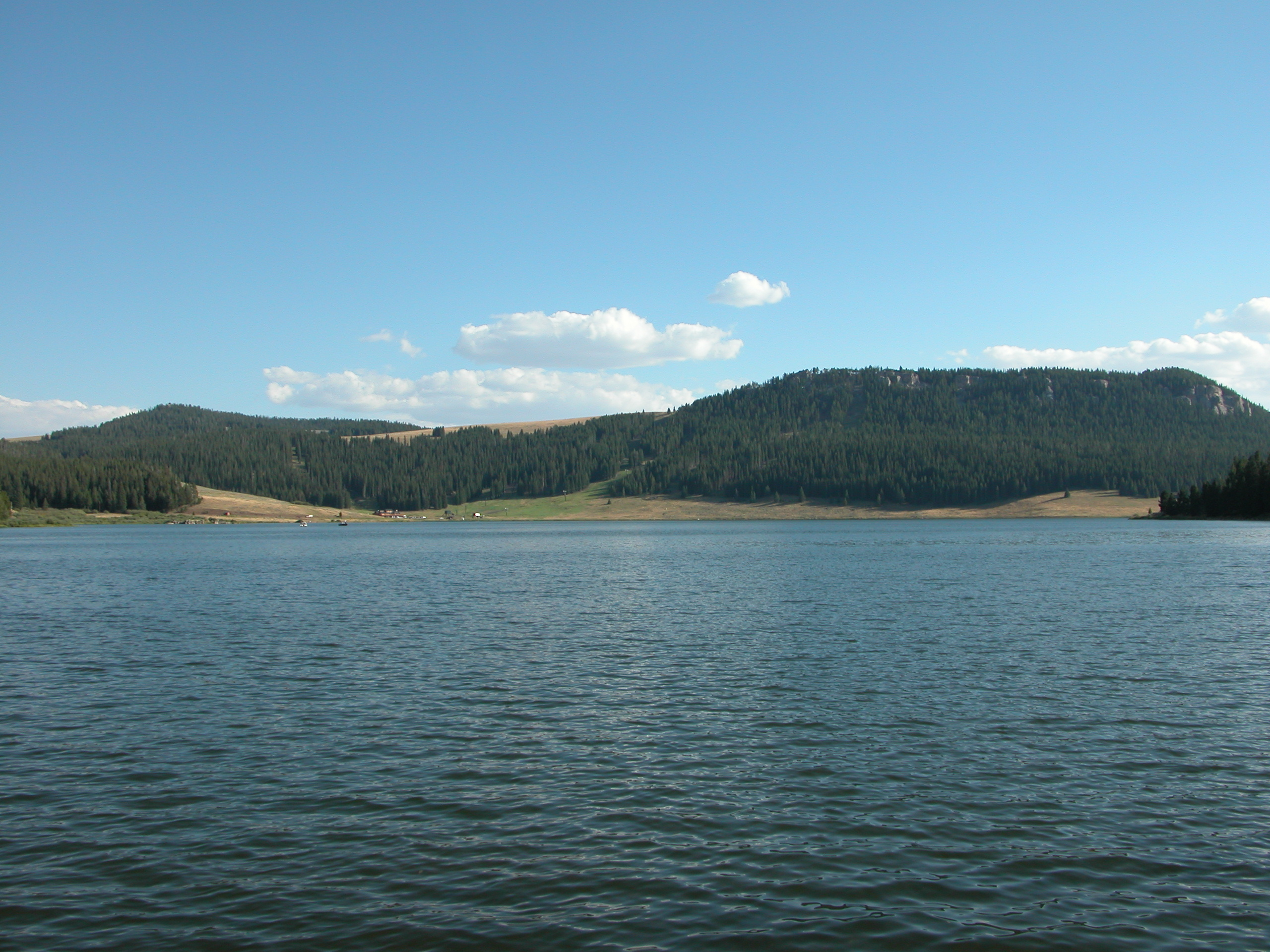 View across Meadowlark Lake on the Cloud Peak Skyway in Wyoming.